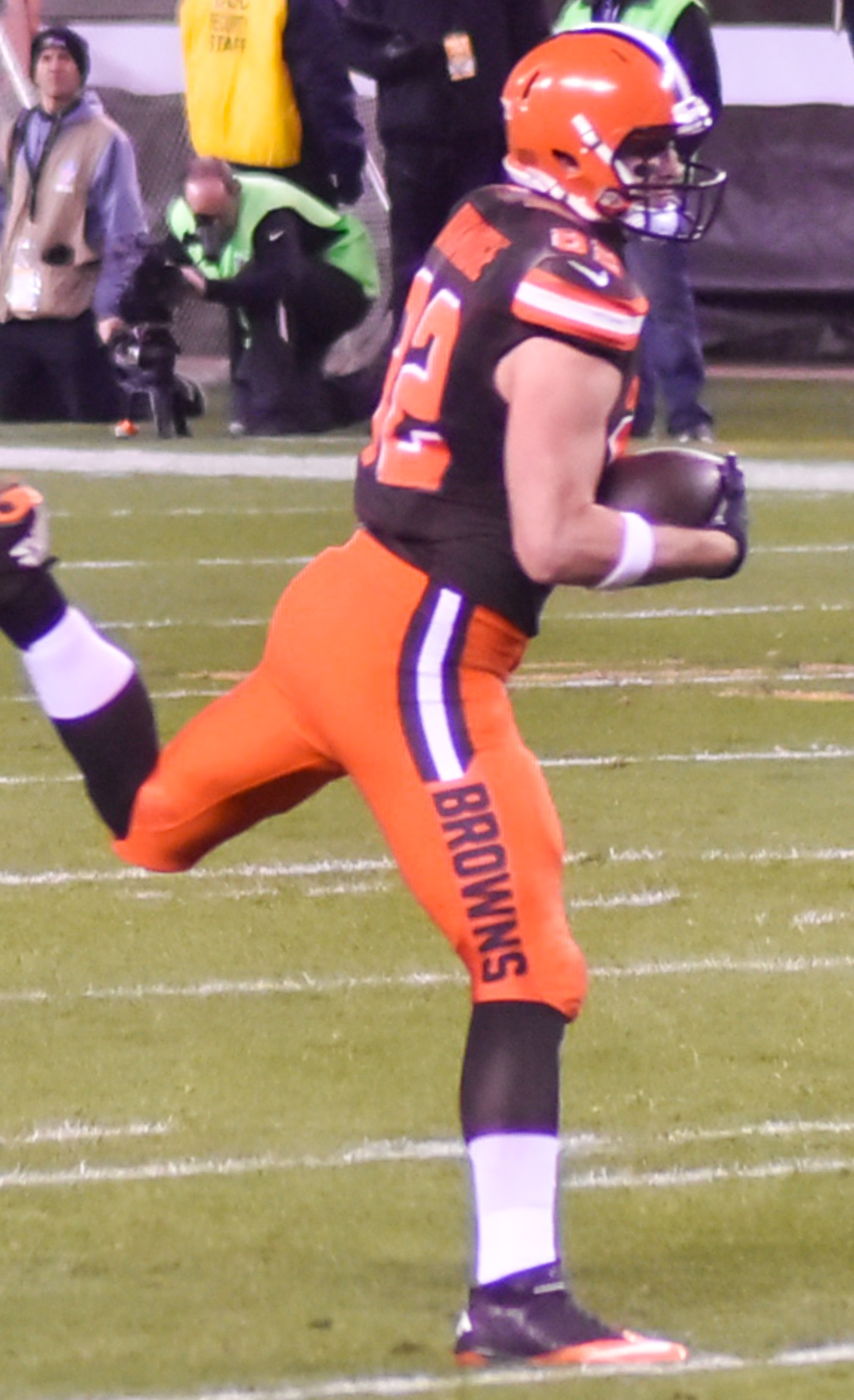 Gary Barnidge